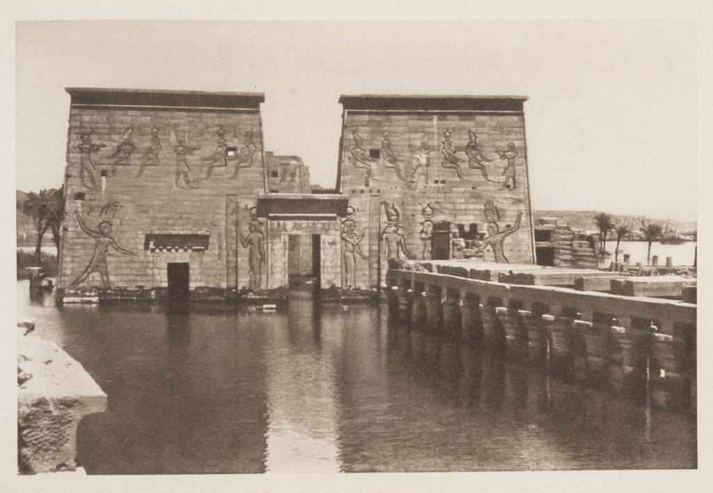 A flooded temple to Isis on the island of Philae with a tall front edifice.